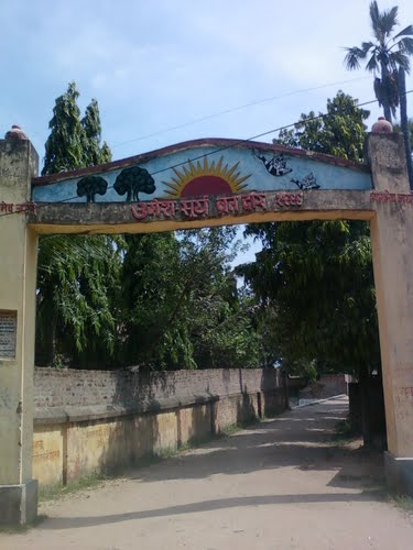 The famous Sun temple in the area for Chhat Puja and other special occasions.